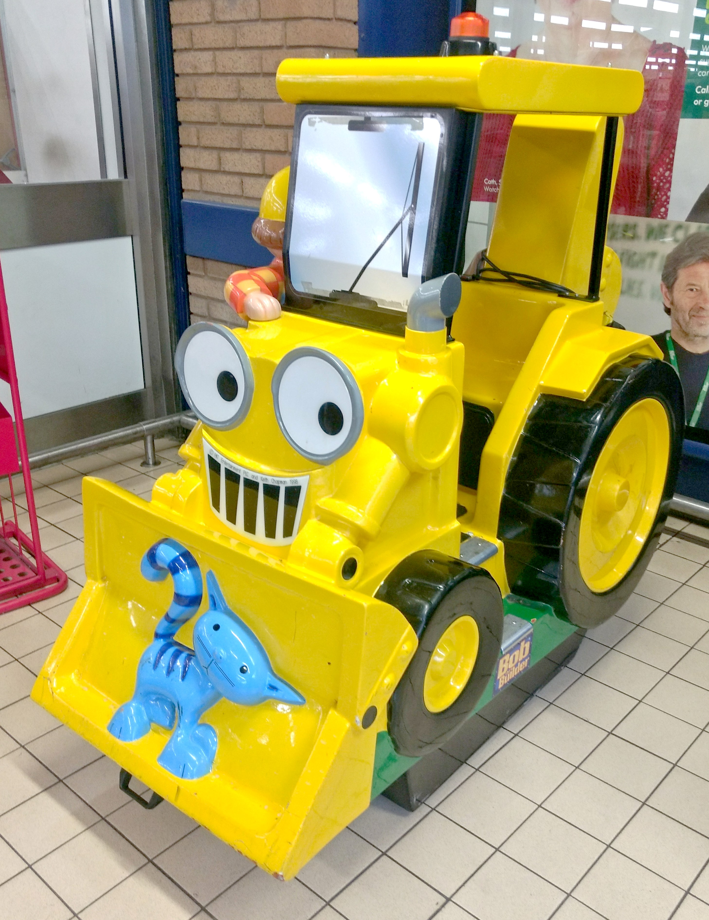 London